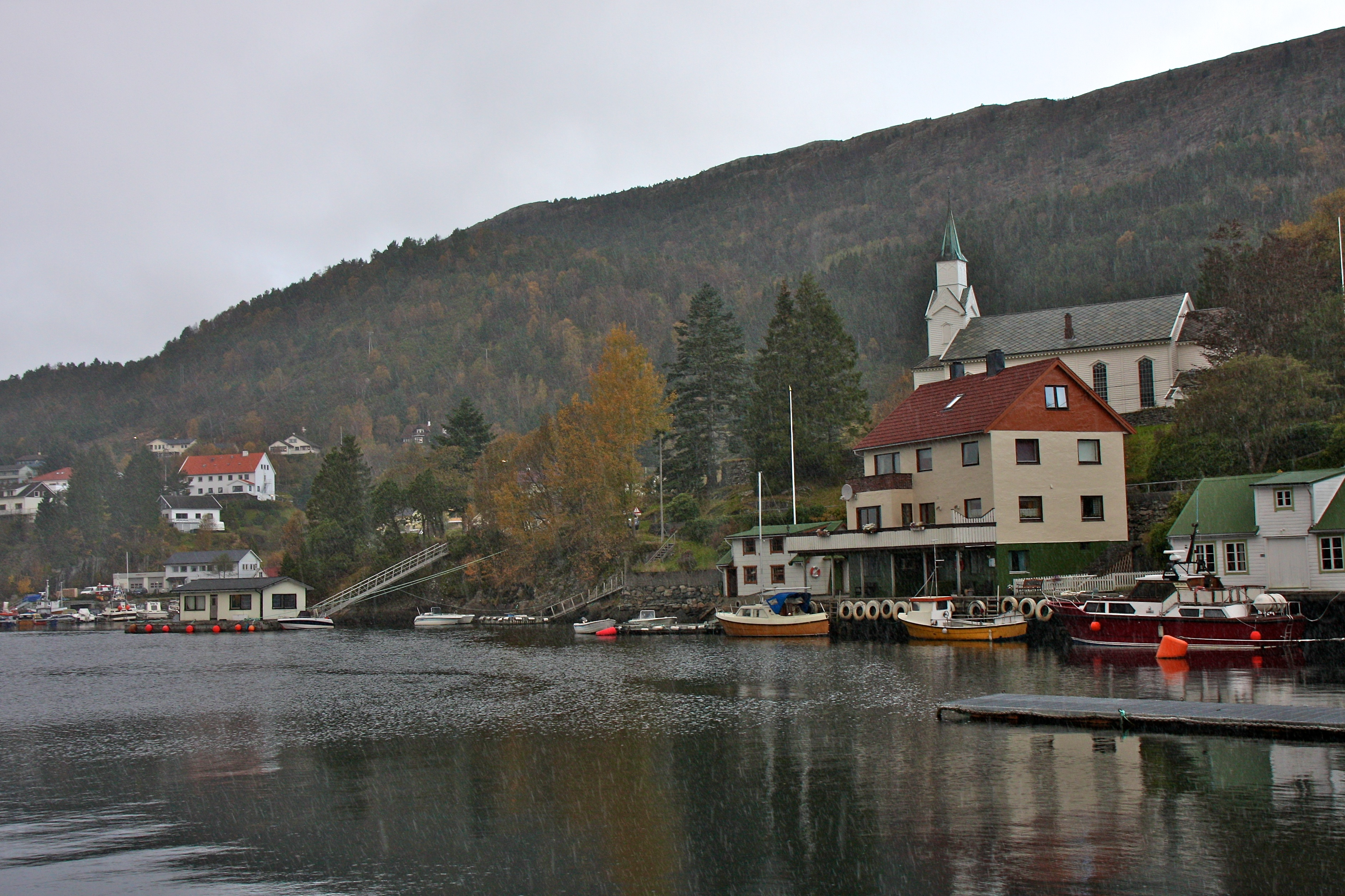 Gulen municipality, Norway.